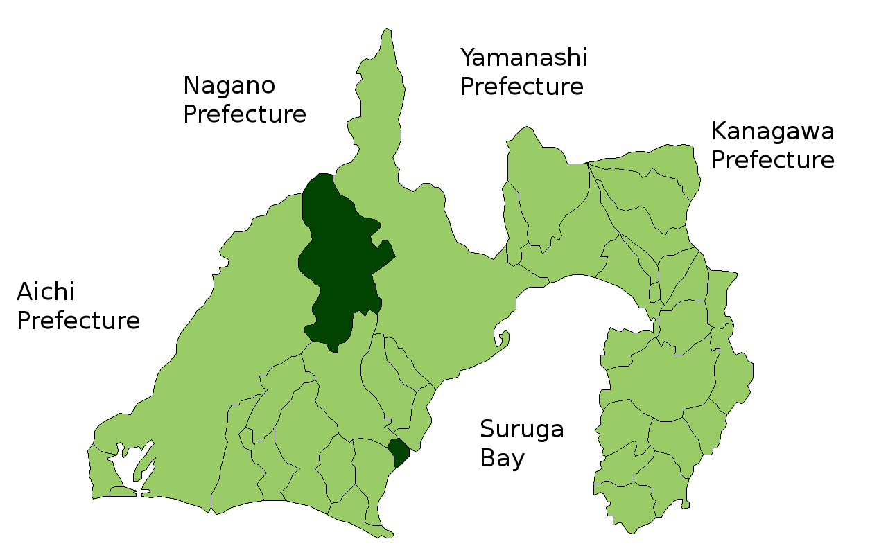 The location of Haibara District in Shizuoka Prefecture, Japan